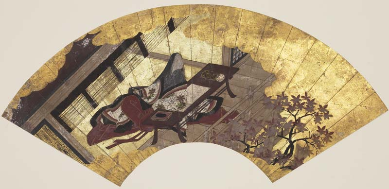 Lady Murasaki, anonymous ink, color and gold paper fan, 17th century Japan (Edo period), Honolulu Academy of Arts